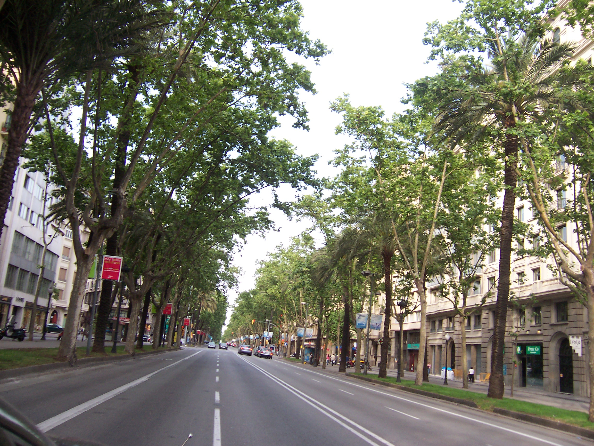 Diagonal Avenue, in Barcelona.